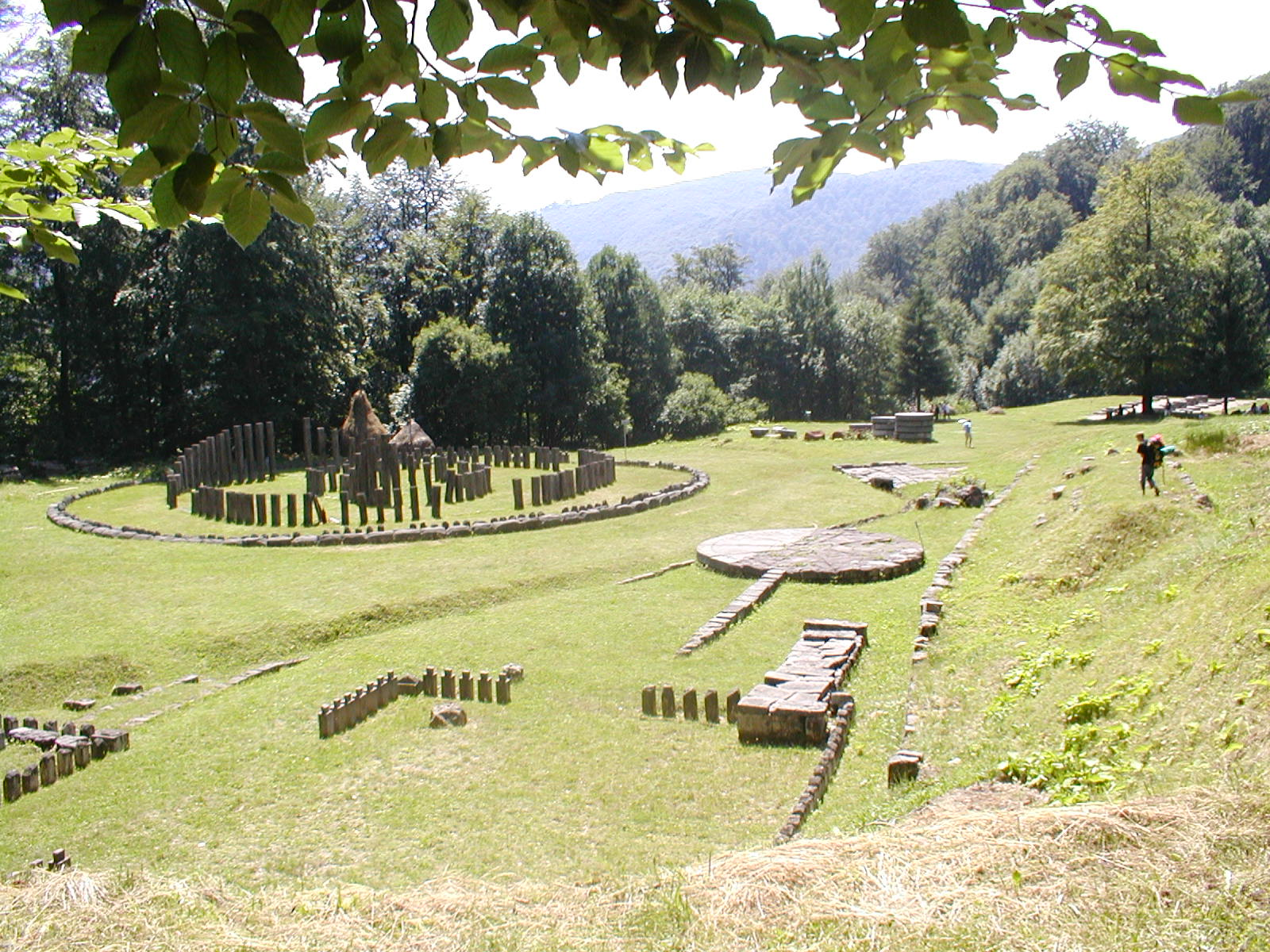 The ancient Dacian fortress Sarmizegetusa, ruins of temples, under reconstruction.